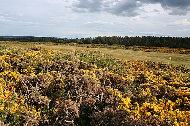 Spey Bay Golf Course The thick banks of whins between the brach track and the golf course were enough to discourage me from getting any closer to the fairways. The Speyside Way passes through the forest at the other side of the course.